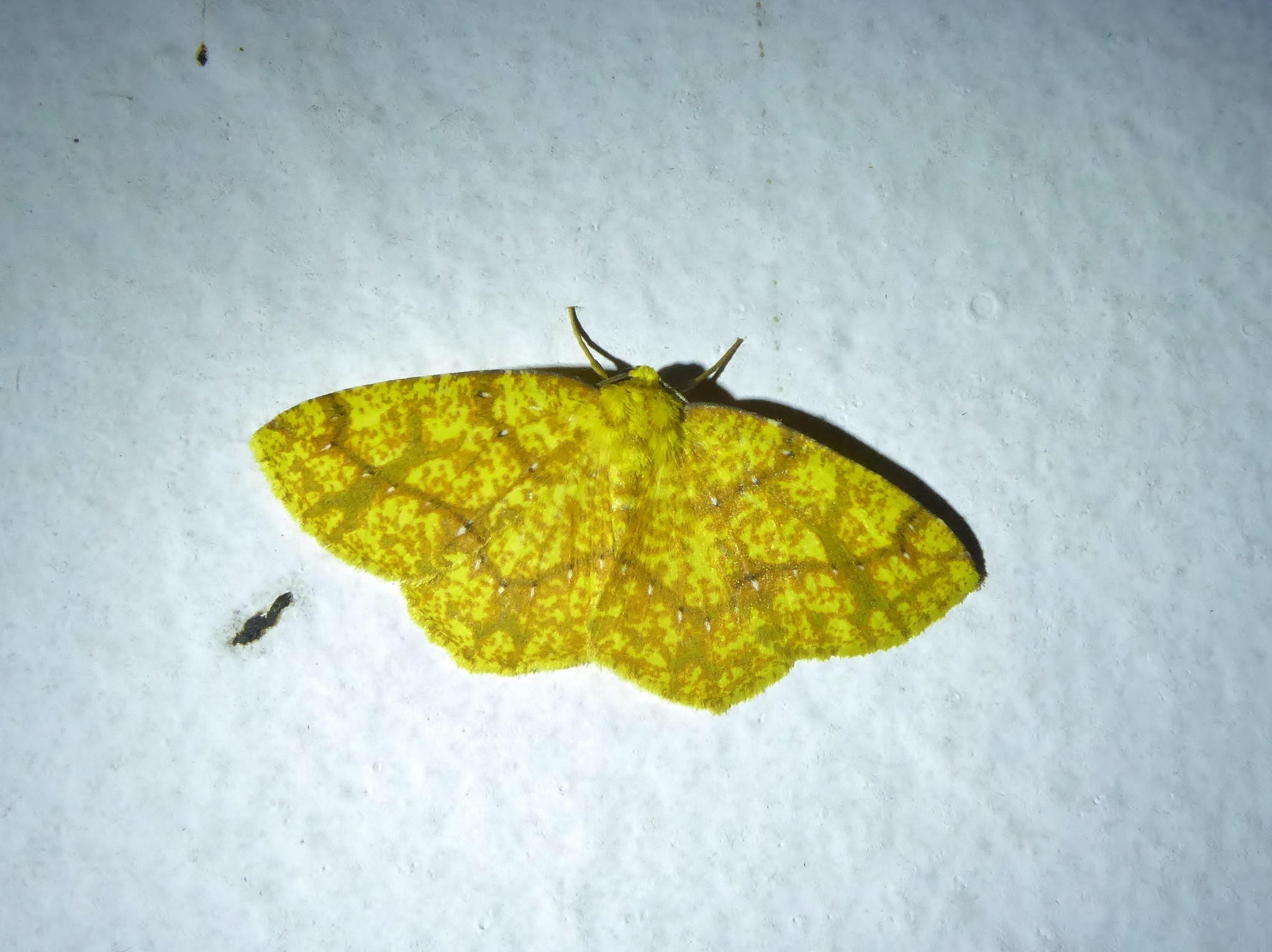 Periclina spp. Species of insect in the genus Periclina.